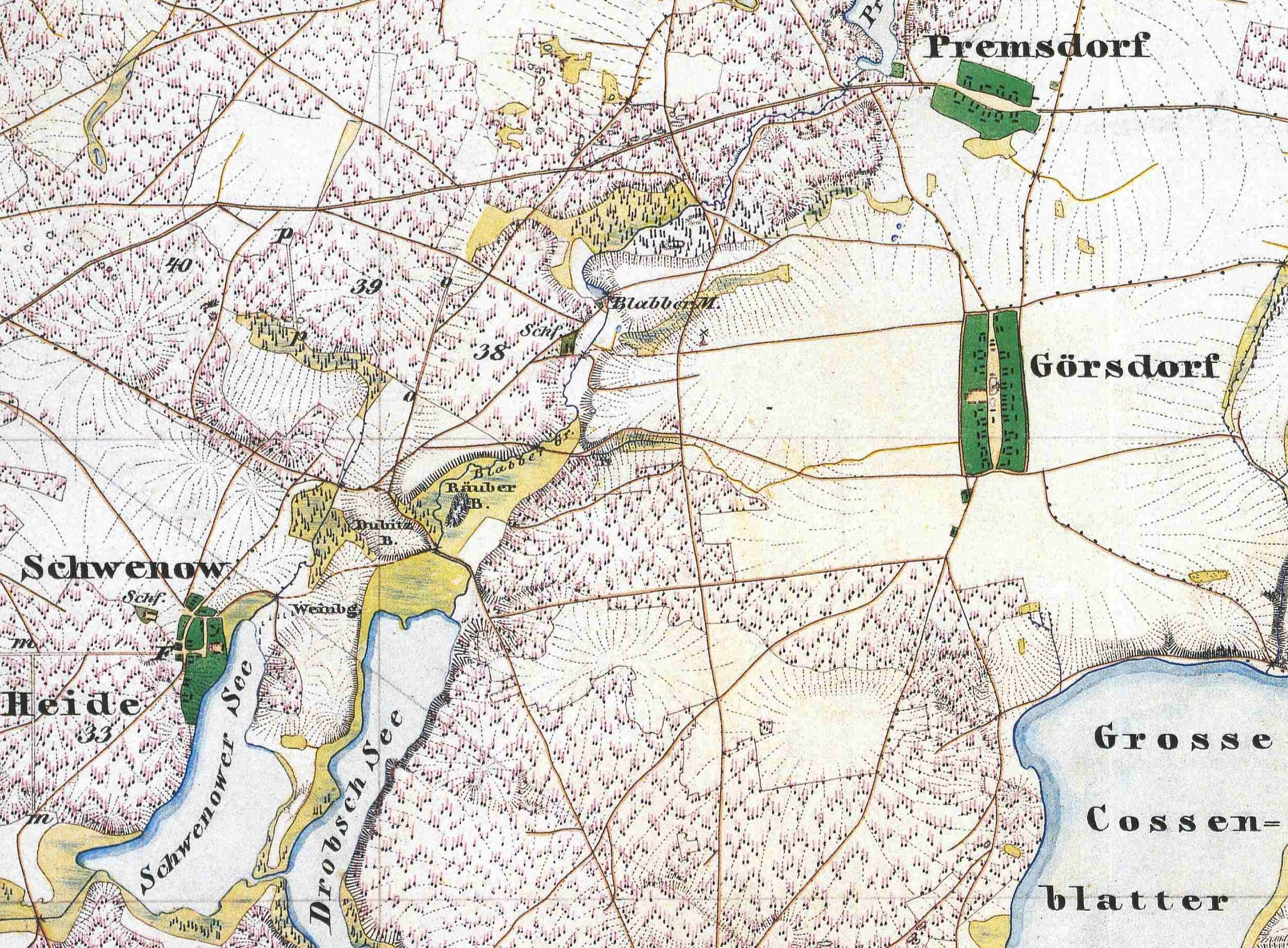 Villages of the todays municipality Tauche and town Storkow in the District Oder-Spree, Brandenburg, Germany. Detail from the Urmesstischblatt (prototype planetable sheet at 1:25,000) Sheet 3850 Kossenblatt, drawn in 1846.